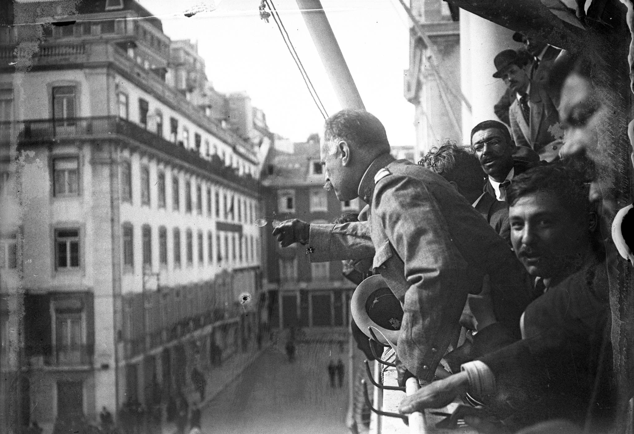 The Revolution of 14 May 1915, in Lisbon. Major Sá Cardoso speaks on the behalf of the Revolutionary Junta on the balcony of the City Hall.